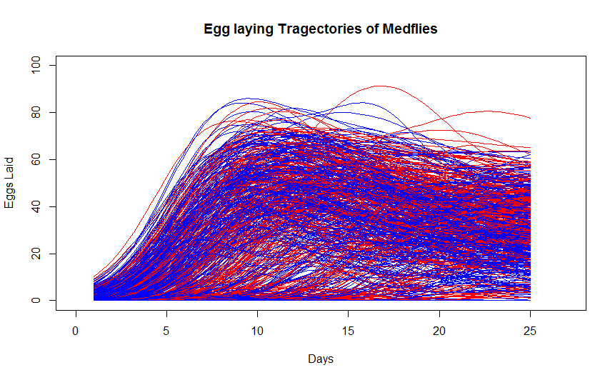 This plot shows the egg laying trajectories of about 600 female medflies for the first 25 days of their lifetime. The red curves correspond to those flies that have more than the median number of remaining eggs and the blue ones are those with less than the median number of remaining eggs.